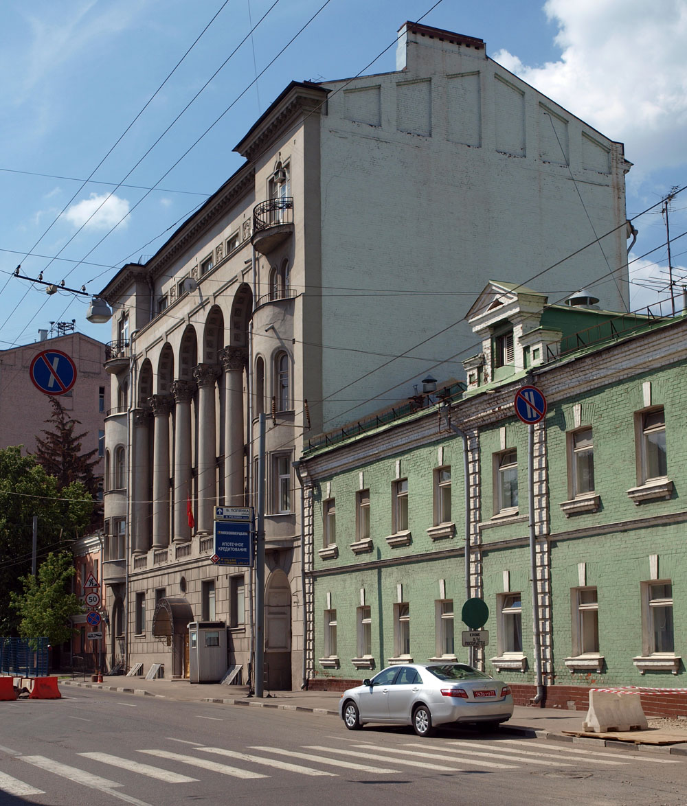 (Right:) Embassy of Kyfgyzstan in Russia - 64 Bolshaya Ordynka Street, Moscow